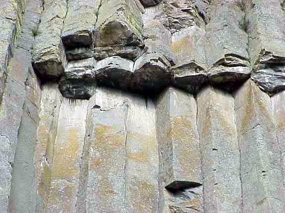 Closeup photo of the columns on Devil's Tower Please acknowledge "Phil Konstantin" as the creator of this photograph.